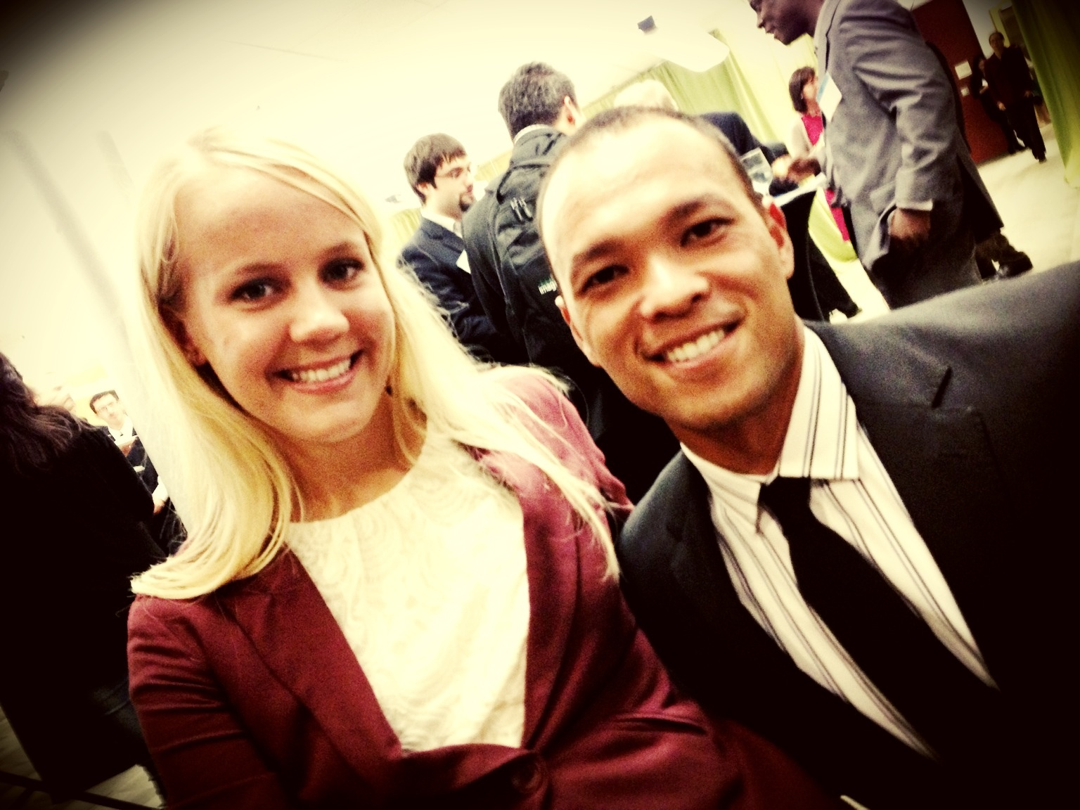 Paralympic swimmer Mallory Weggemann and Olympic decathlete Bryan Clay photographed at the Social Innovation Summit in Mountain View